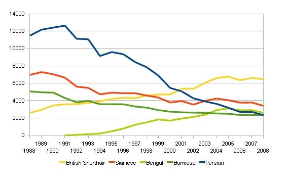 Governing Council of Cat Fancy breed registration data between 1988 to 2008 for the top 5 breeds of 2008.